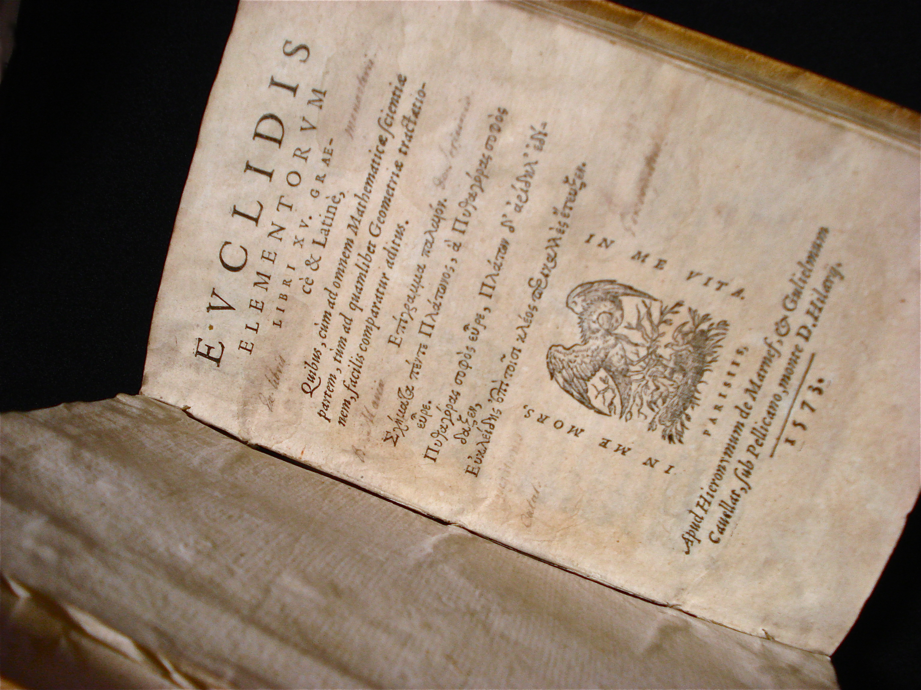 Euclidis – Elementorum libri XV Paris, Hieronymum de Marnef & Guillaume Cavelat, 1573 (second edition after the 1557 ed.); in-8, 350, (2)pp. THOMAS-STANFORD, Early Editions of Euclid's Elements, n°32. Mentioned in T.L. Heath's translation. Private collection Hector Zenil.